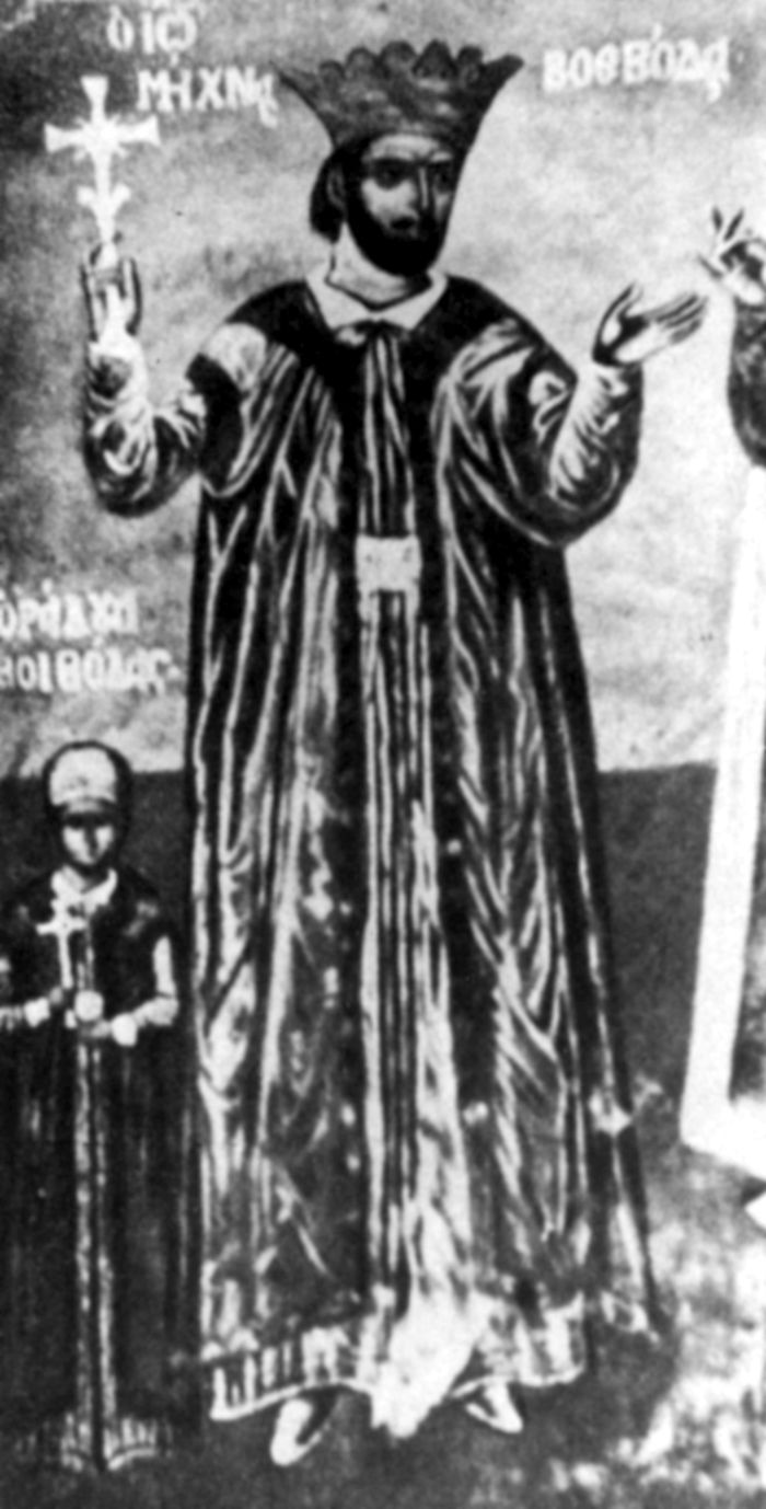 Mihnea the Ist and son. Fresco in Iviron Monastery, Greece